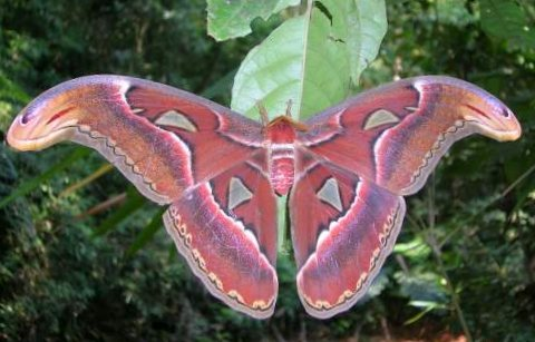 Atlas moth, This is possibly Attacus taprobanis rather than Attacus atlas The specimen was photgraphed in Wayanad Wynaad.